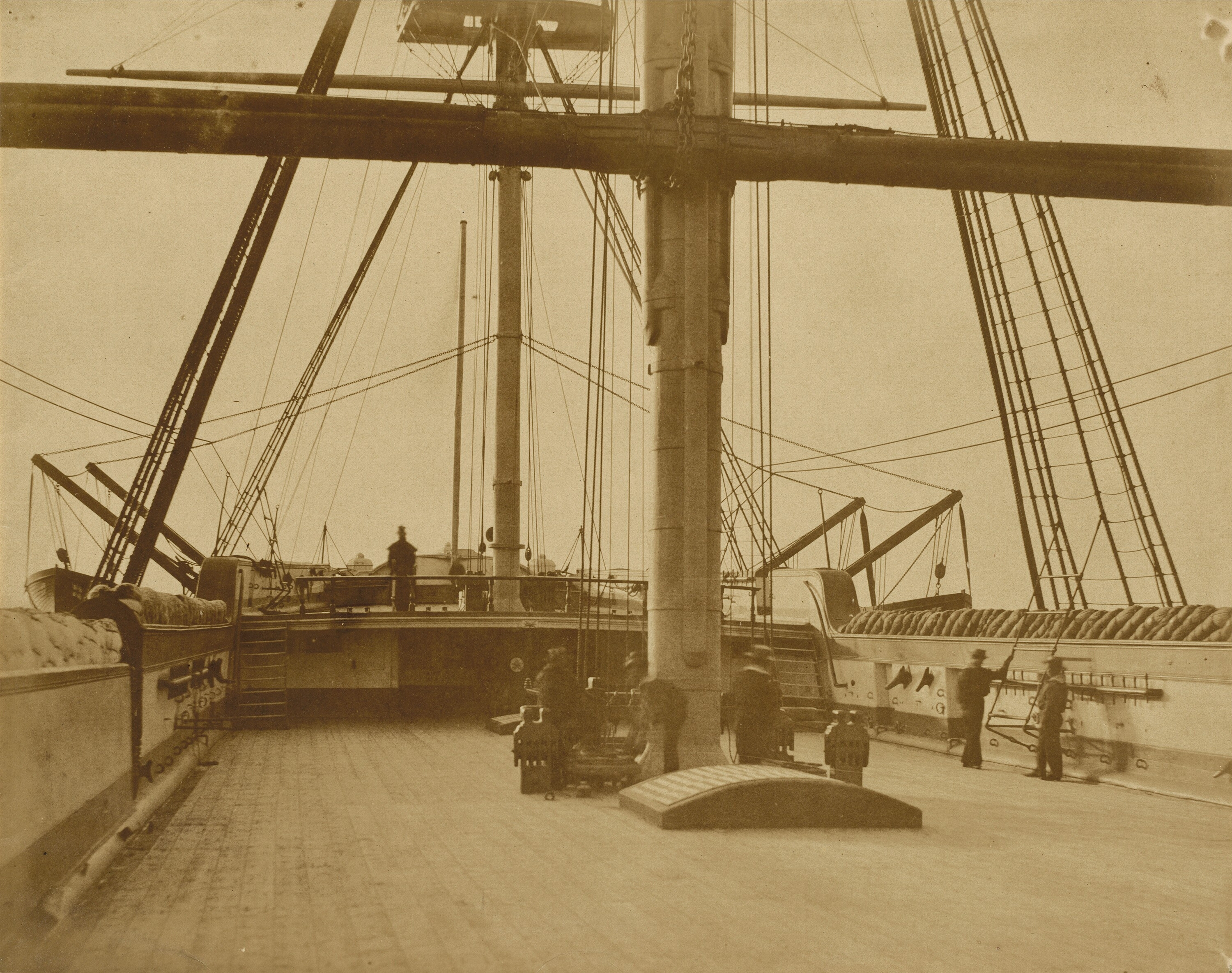 Quarterdeck of HMS “Impregnable”. Albumen print